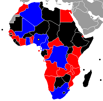 Qualified teams for the 2006 African Women's Championship, the seventh edition of the biennial football championship organised by the CAF.